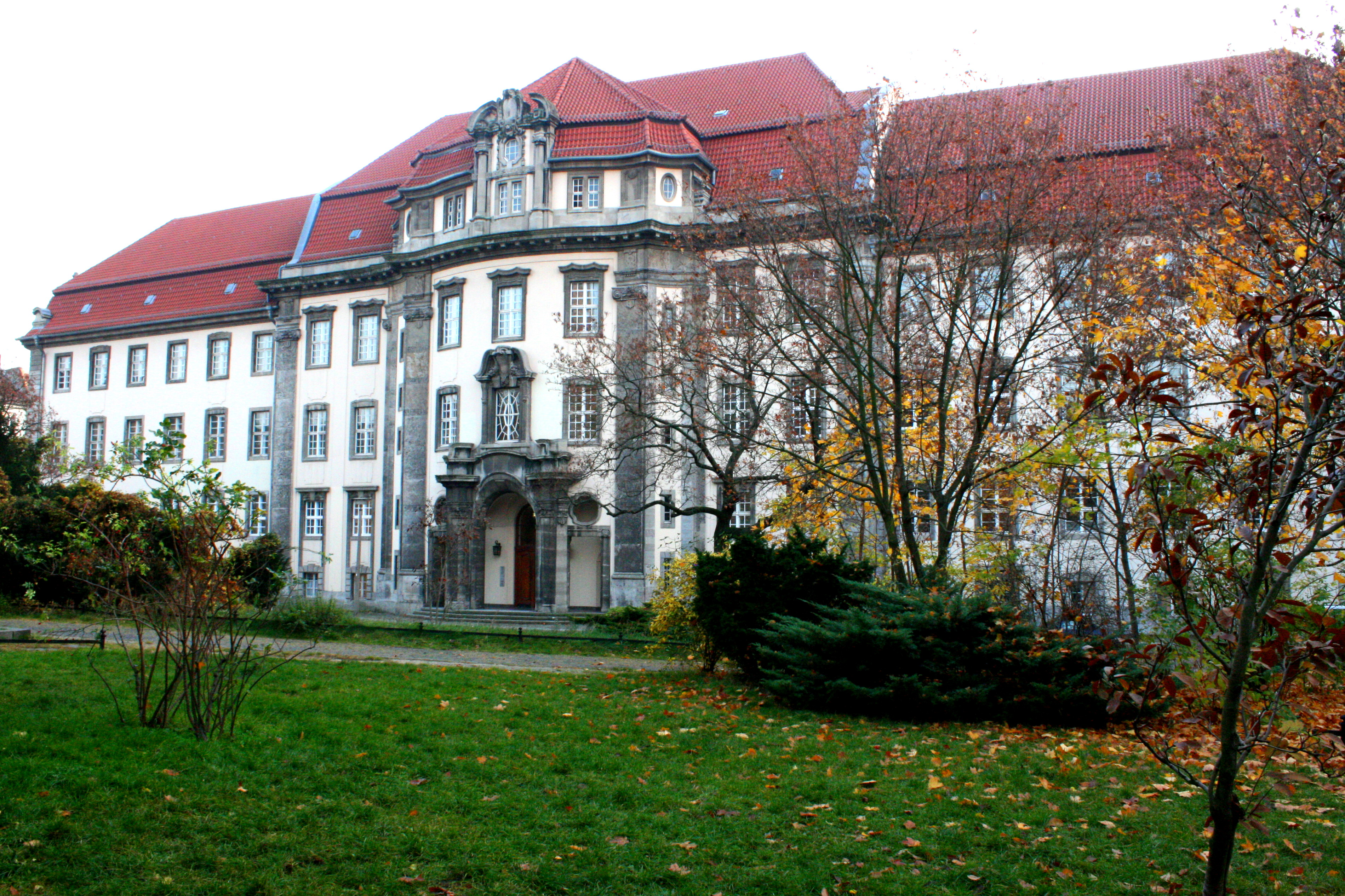 Amtsgericht Lichtenberg, Roedeliusplatz, Berlin